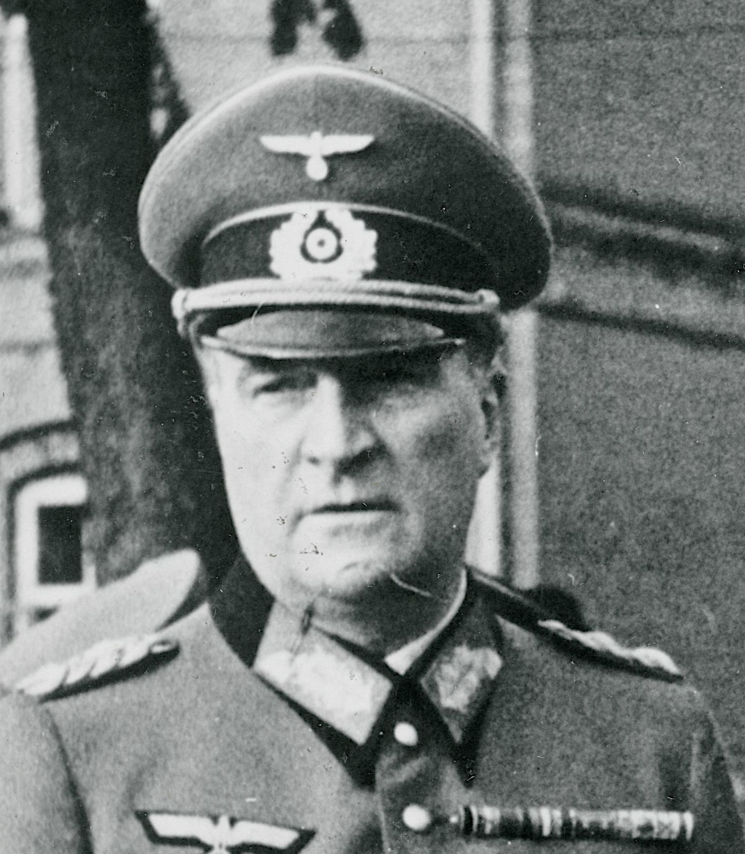 Supreme Commander of Denmark Herman von Hanneken (left) with Chief of the Royal Danish Army Ebbe Gørtz (middel) during a Free Corps Denmark Parade in 1942.